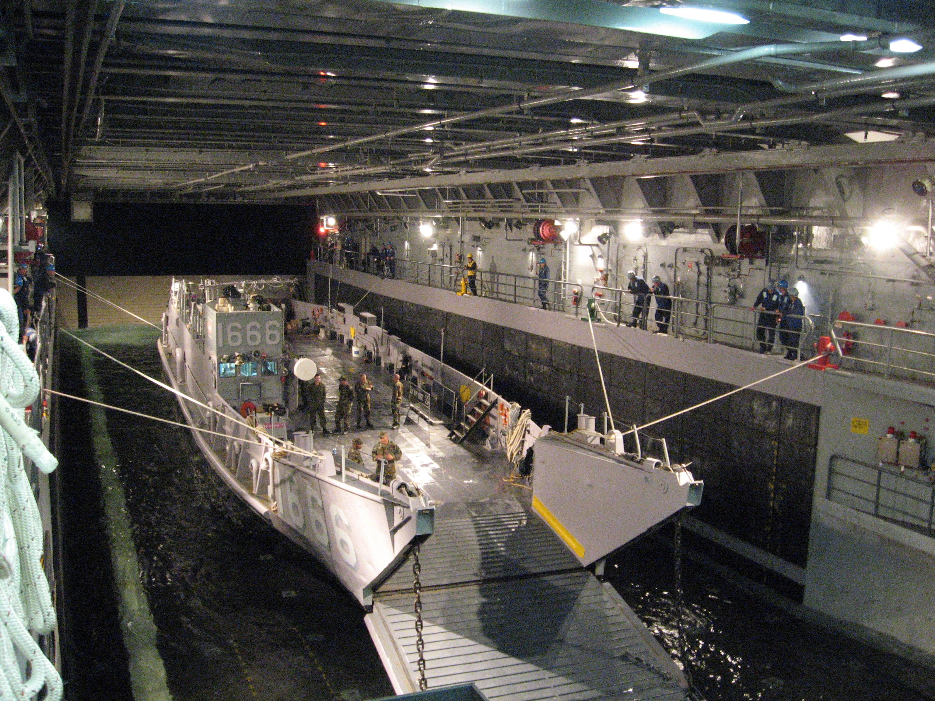 Sailors aboard the amphibious transport dock ship USS New Orleans (LPD 18) tend lines from Landing Craft Utility (LCU) 1666 during a night recovery training exercise. New Orleans is conducting multiple day and night launches and recoveries with LCU 1666 as part of her amphibious warfare certification.